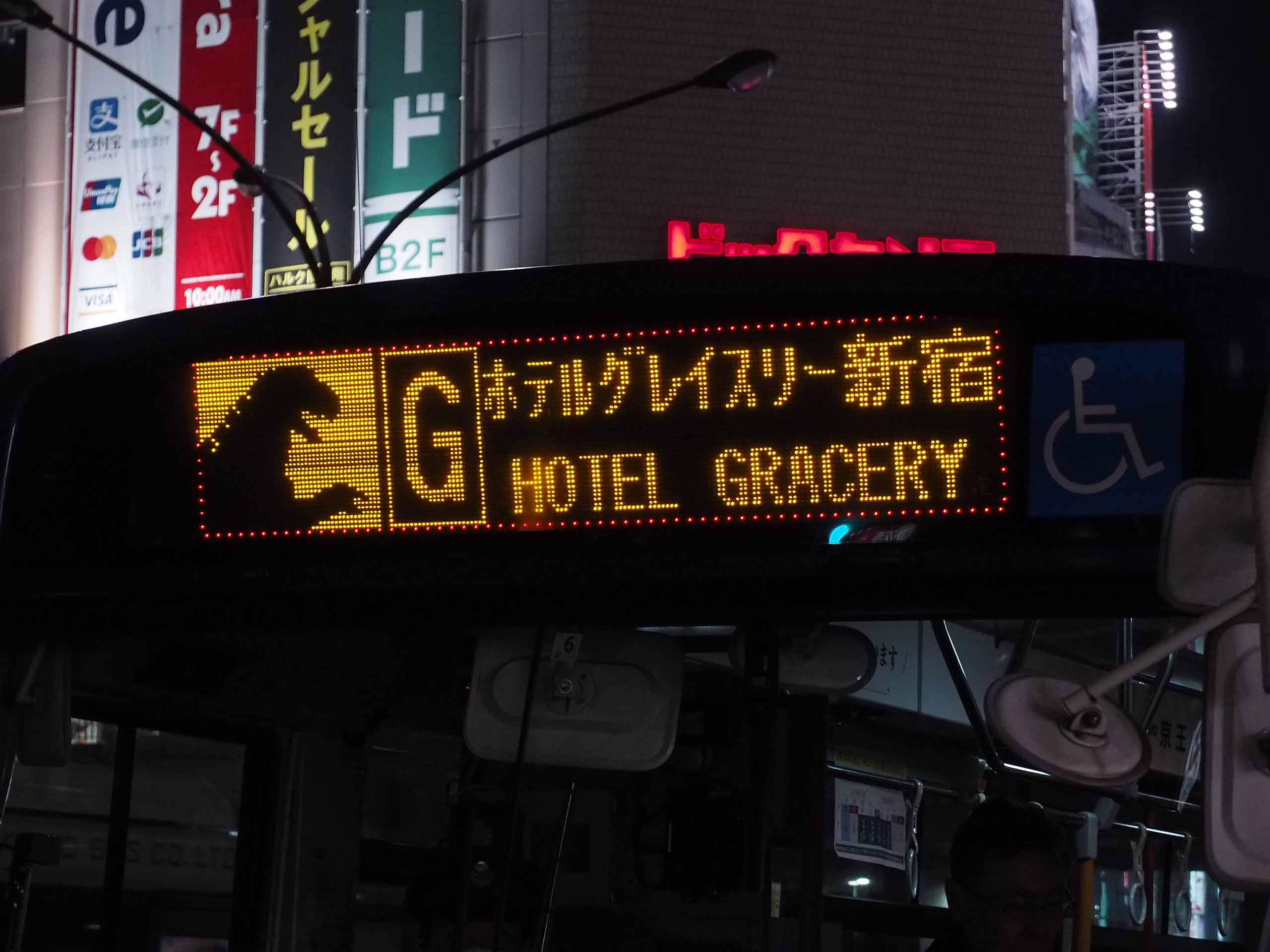 Front LED Sign of Shinjuku WE Bus, displayed Route G: bound for Hotel Gracery Shinjuku, Kabukicho, with Godzilla' s silhouette.